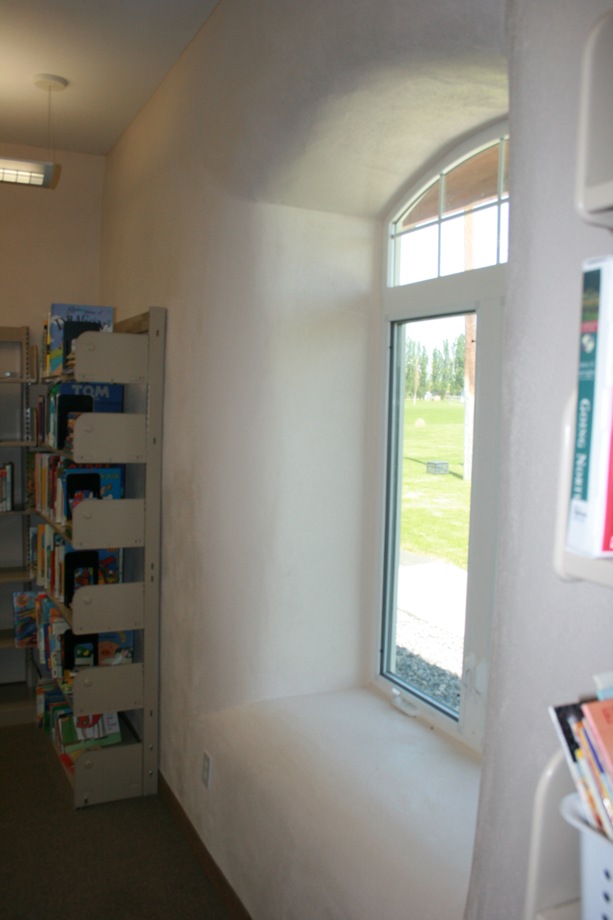 Interior view of straw-bale construction seen in the public library of Mattawa, Washington.